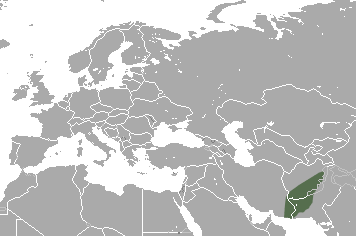 Zarudny's Rock Shrew (Crocidura zarudnyi) range